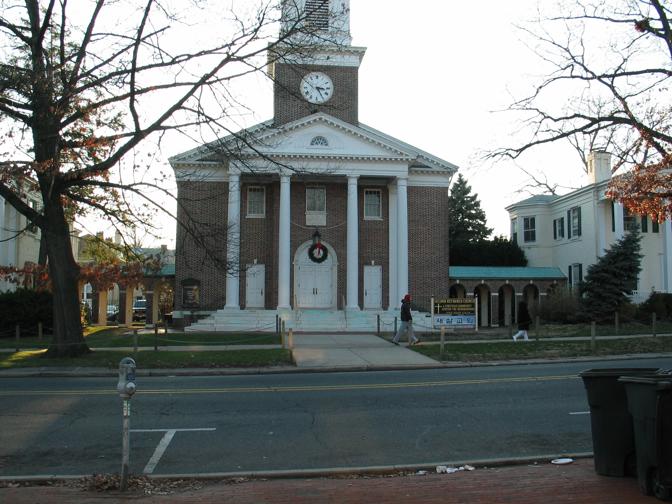 Second Reformed Church in New Brunswick, New Jersey